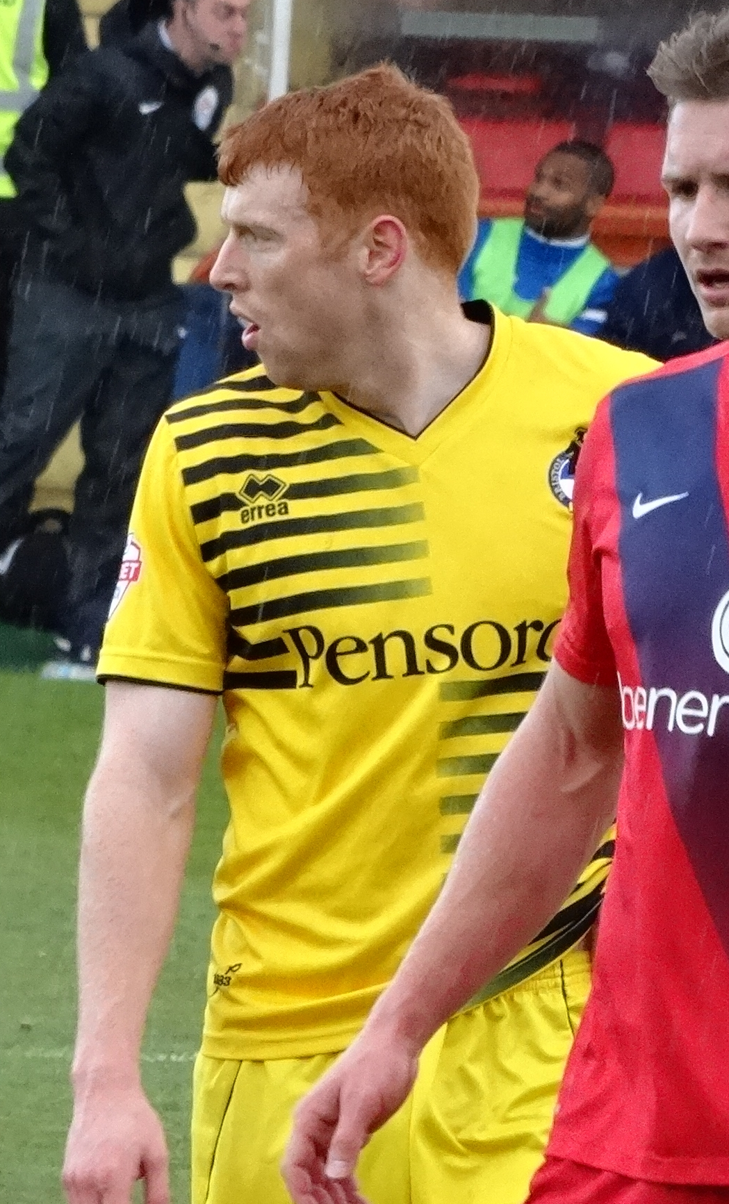 Rory Gaffney playing for Bristol Rovers against York City at Bootham Crescent, York on 30 April 2016